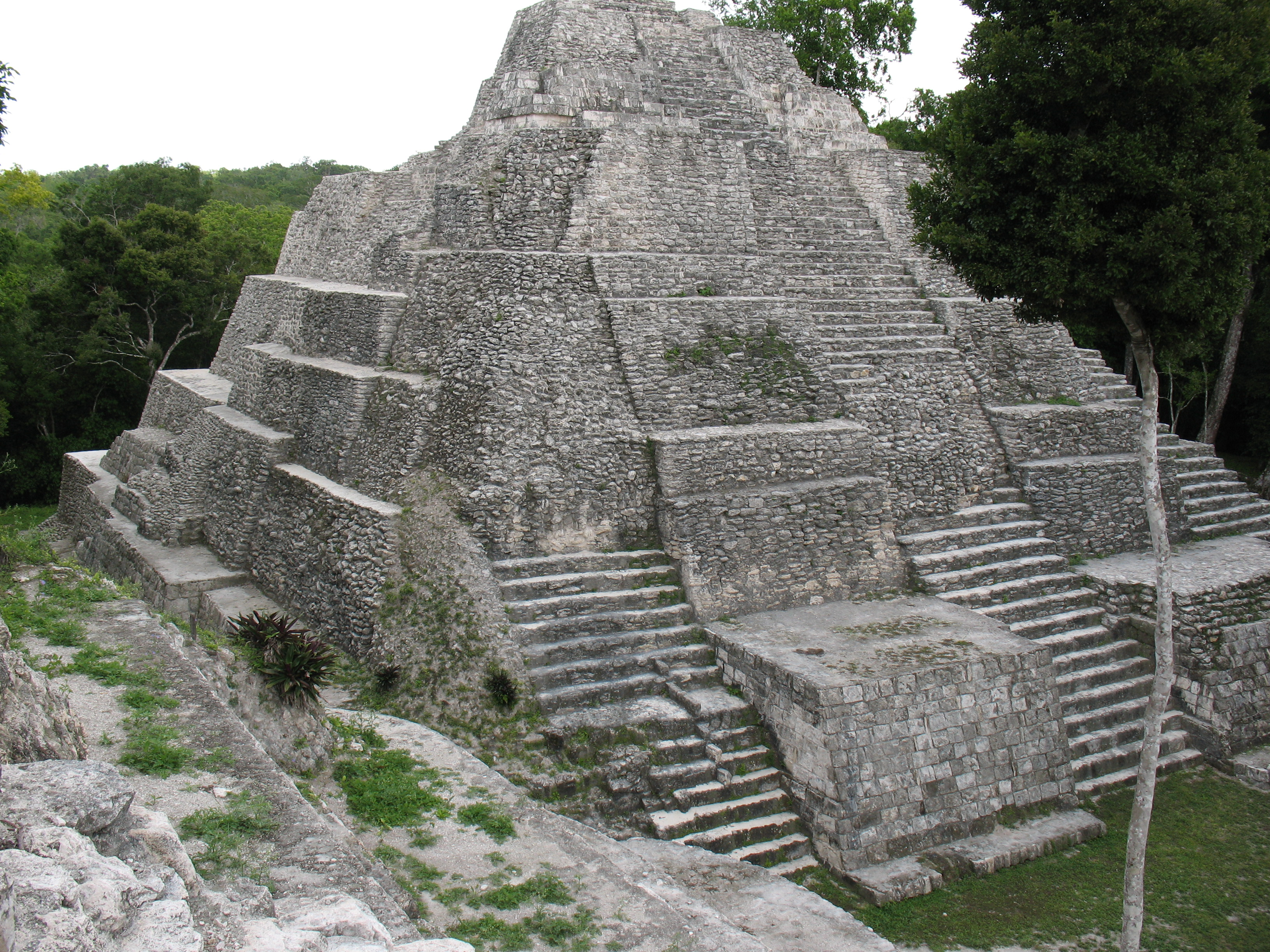 Maya ruins of Yaxha, Guatemala. West Temple, North Acropolis